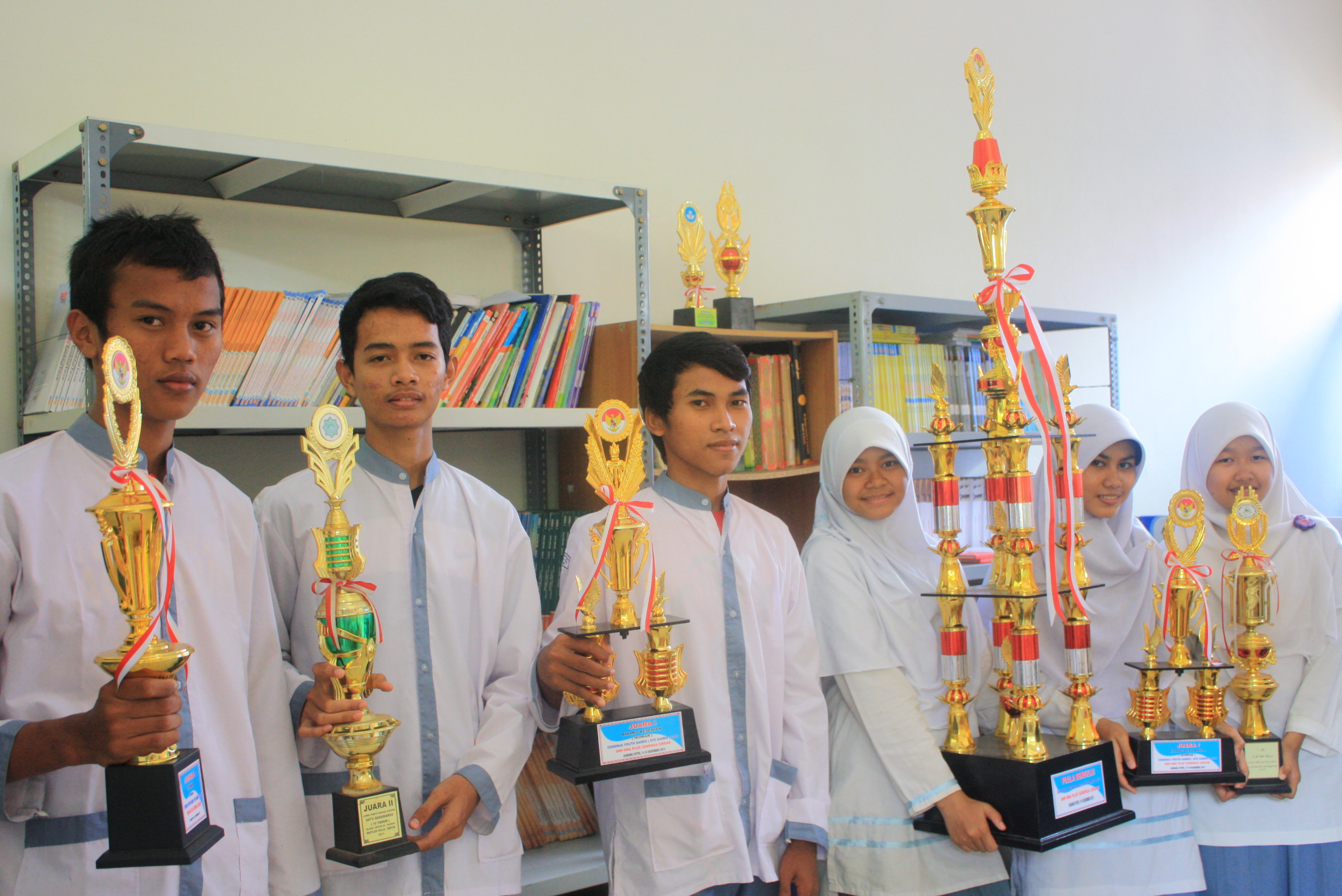 Peserta Didik Berprestasi SMA PLUS Cendikia Cikeas